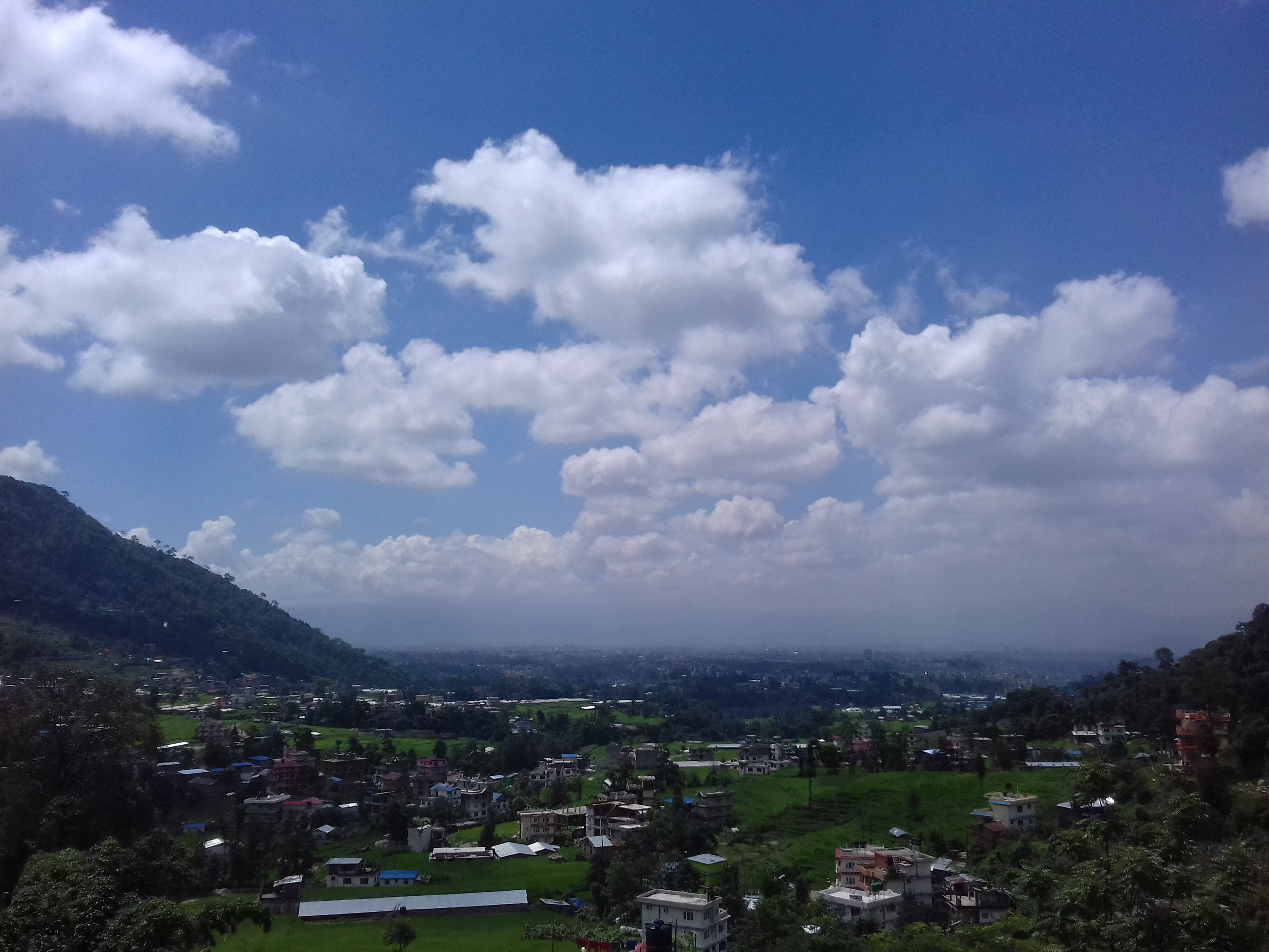 view from jhor